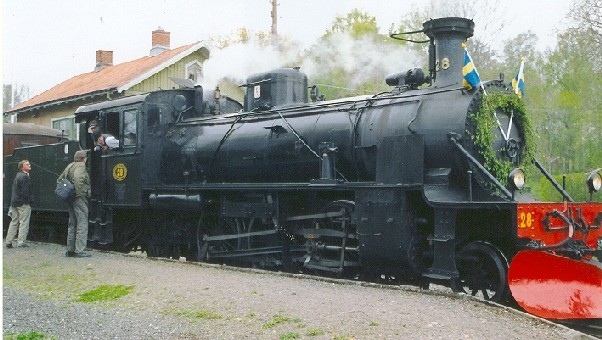 Steam engine SRJ 28 at Lenna station at Upsala-Lenna Railway in Sweden